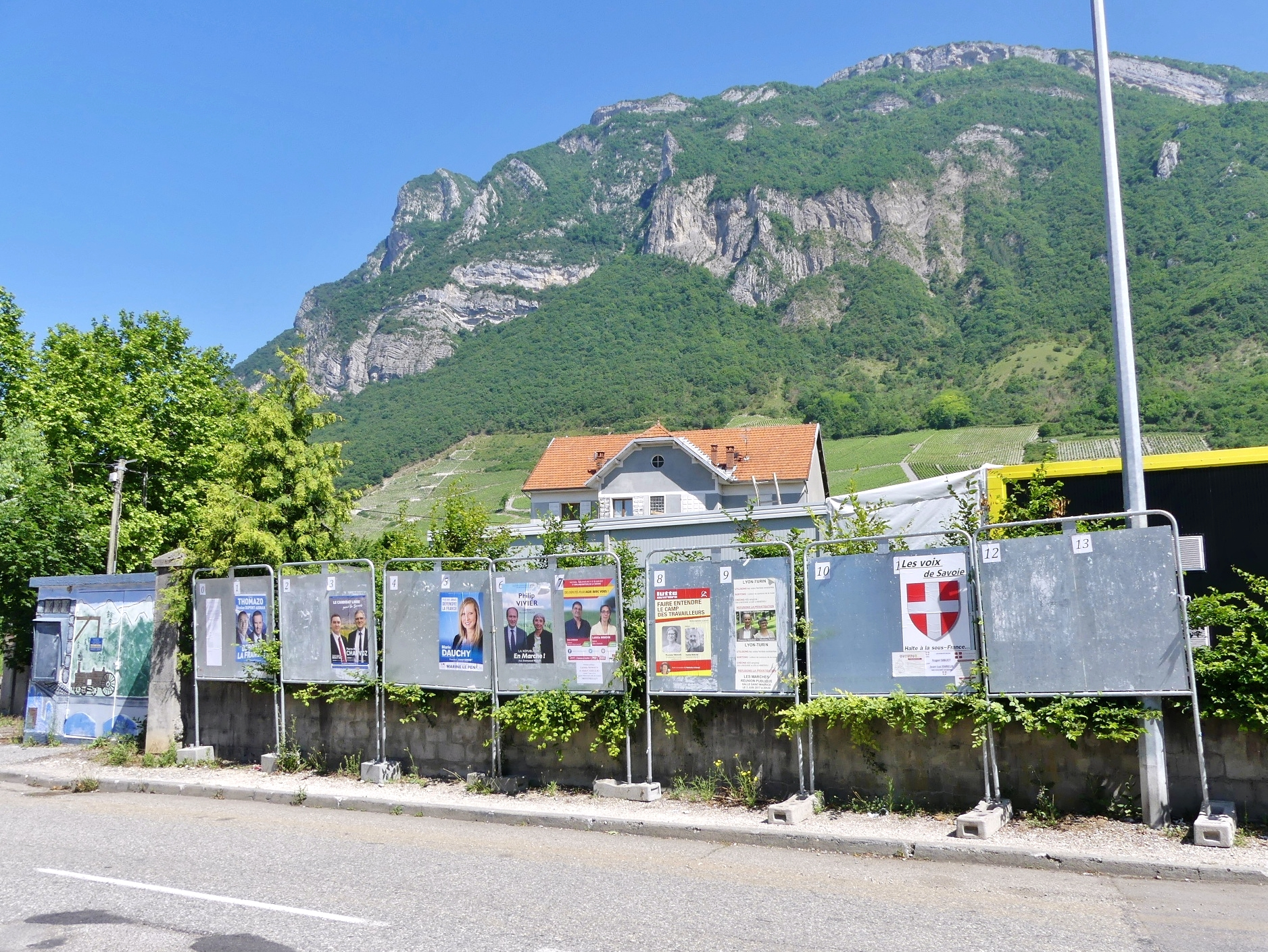 Sight of the election posters in the 3rd constituency of Savoie, a few days before the French legislative election in 2017. This picture is taken in Montmélian.